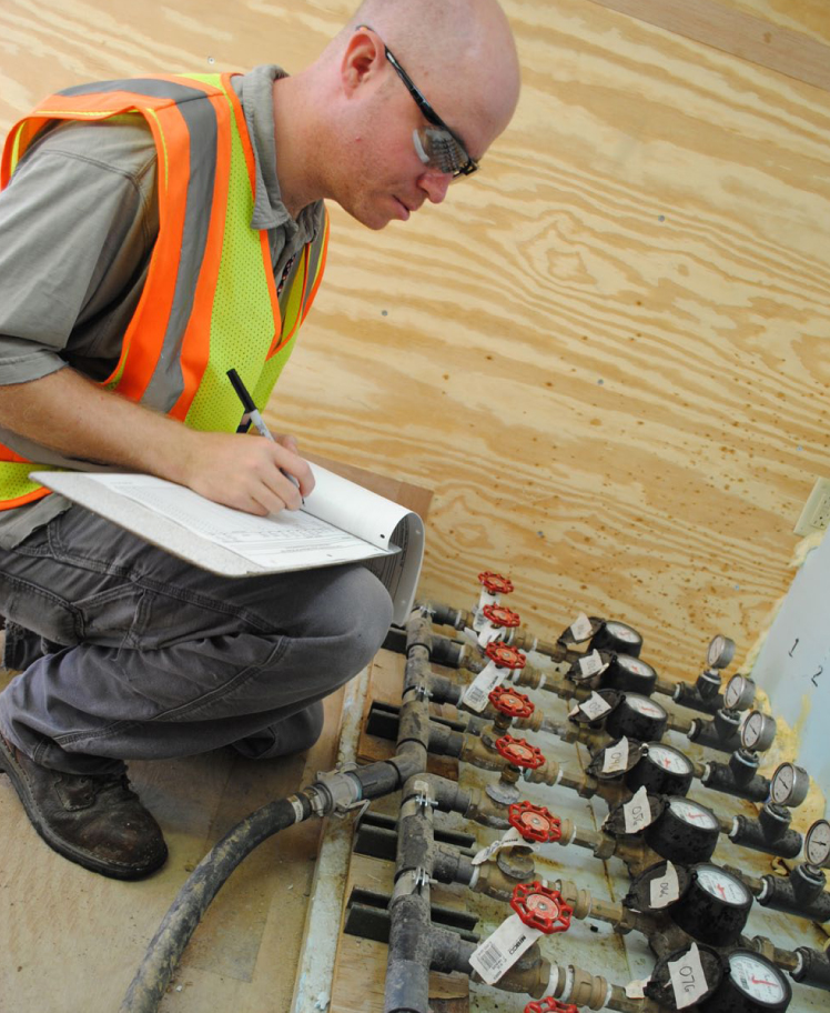 Neil Smith of CDM reviews the gauges of hoses leading to some of the 35 on-site injection wells between the X-720 Maintenance Facility and the X-700 Cleaning Facility.